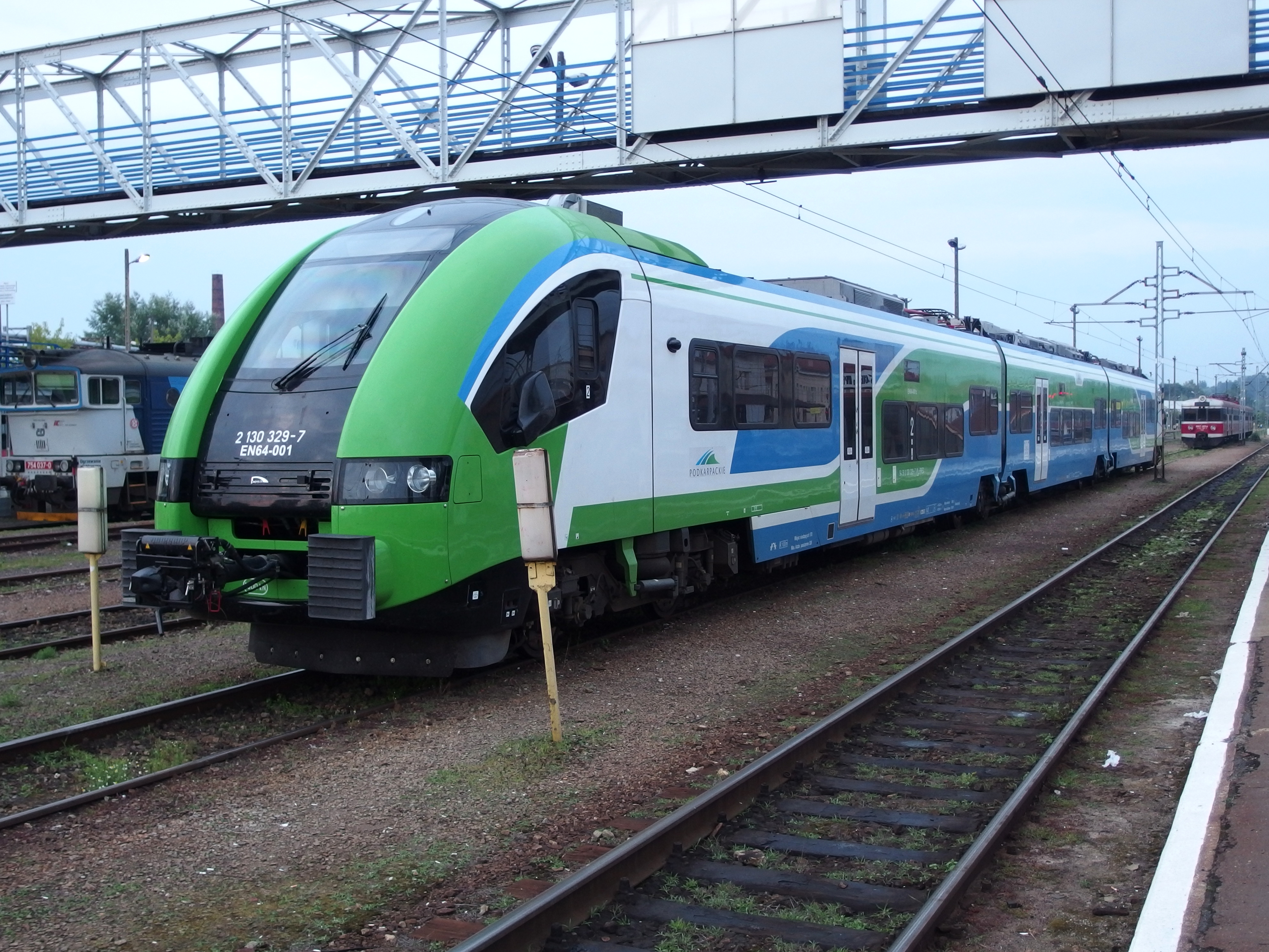 EN64-001 at Rzeszów railway station